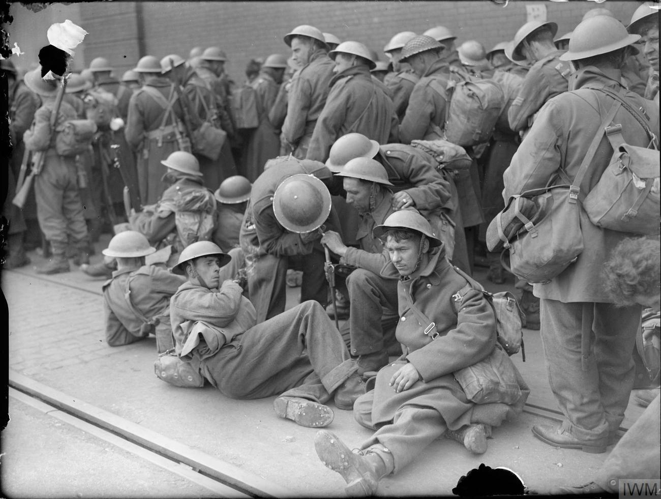 The British Army in the UK- Evacuation From Dunkirk, May-june 1940 Exhausted British troops rest on the quayside at Dover, 31 May 1940.